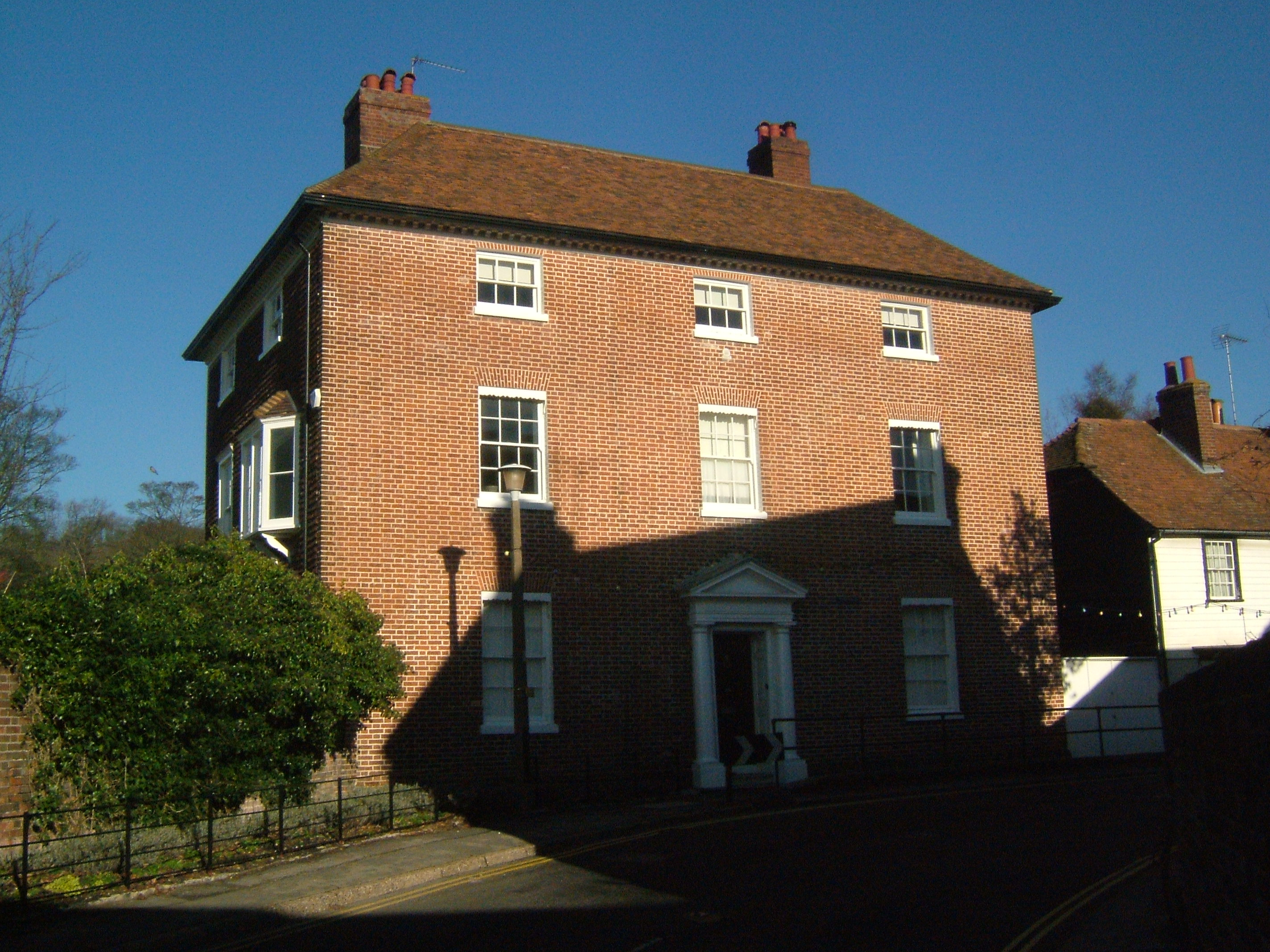 Wrotham in Kent, is a parish in Kent, England, south of Gravesend. Village House. - Google Maps - Google Earth